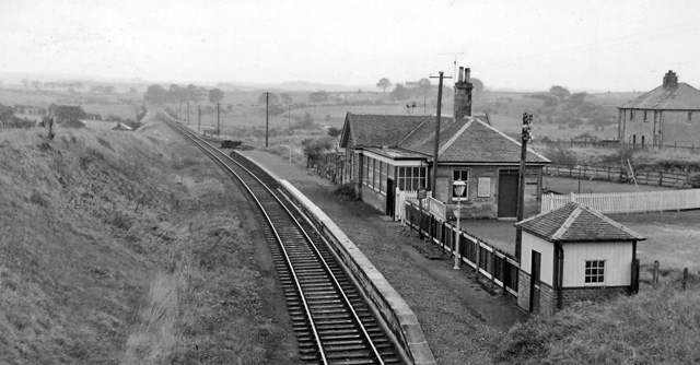 Barrmill Station, Near to Barrmill, North Ayrshire, Great Britain. View eastward, towards Lugton; station on Lugton - Beith branch (former G&SW & Caledonian Joint). Line going to right is former Caledonian line to Giffen, there joining the Caledonian line from Glasgow to Ardrossan (Montgomery Pier) via Kilwinning; that line lost its local passenger services west of Uplawmoor on 4/7/32 and Montgomery Pier closed on 6/5/68. Barrmill station closed on 5/11/62; Barrmill - Beith closed on 5/10/64, but a remnant of the branch from Lugton remains available (but now rarely used) to serve the Beith Naval Armaments Depot), just east of Barrmill. [A complicated story]